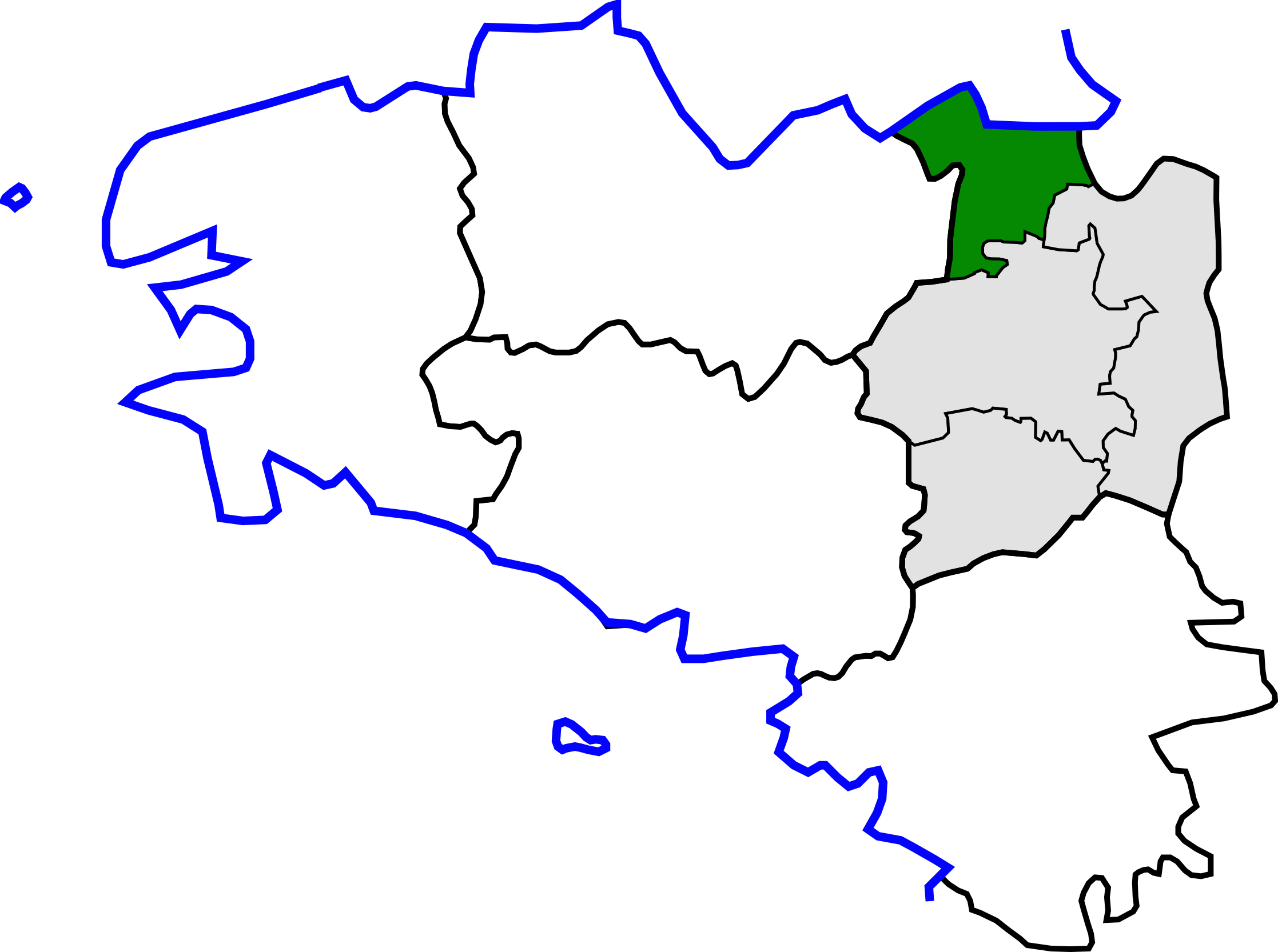 Map for localisazion of arrondissements of Brittany, in France